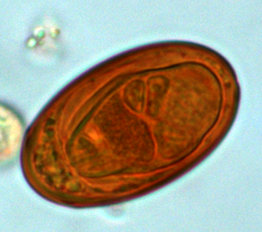 Gastrointestinal parasites in seven primates of the Taï National Park - Helminths Figure 3h of paper. Egg of Dicrocoelium sp.